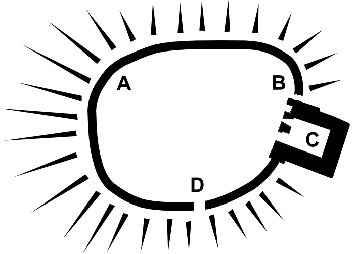 Plan of Loughor Castle, after J. M. LewisChateau Gaillard, no. 7, p.150